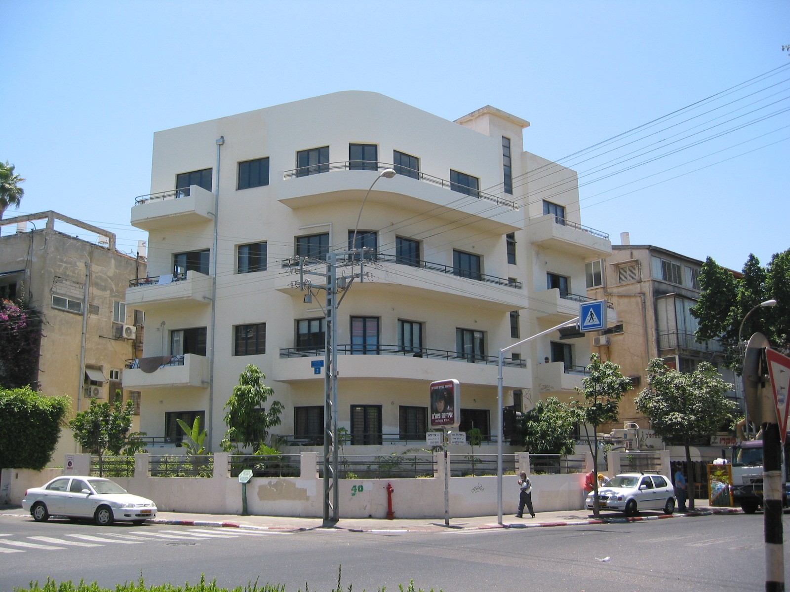 International style house on the corner 90 King George Street/2 Netsach Israel Street, Tel Aviv.